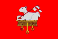 Flag of San Ġwann, Malta